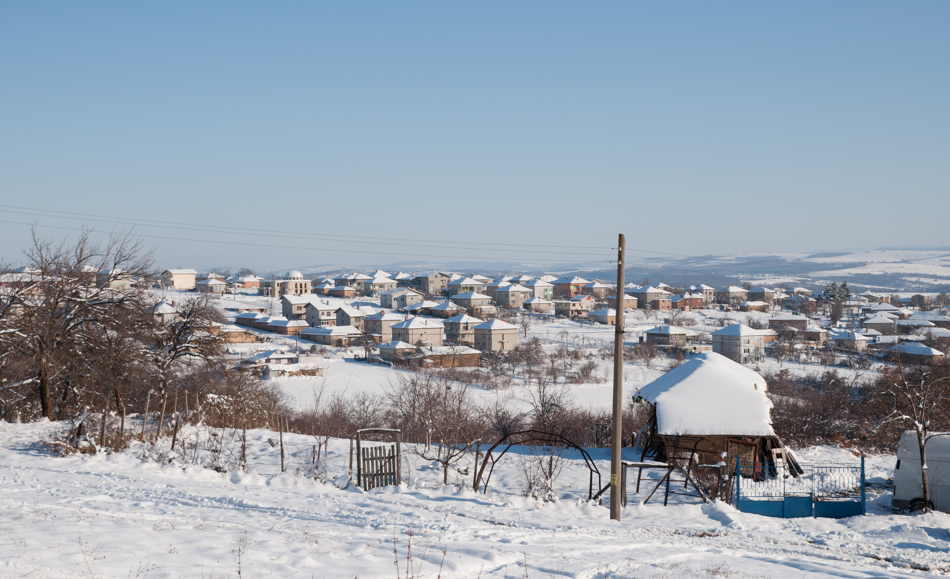 The small town of Antonovo in Targovishte Province, Bulgaria.